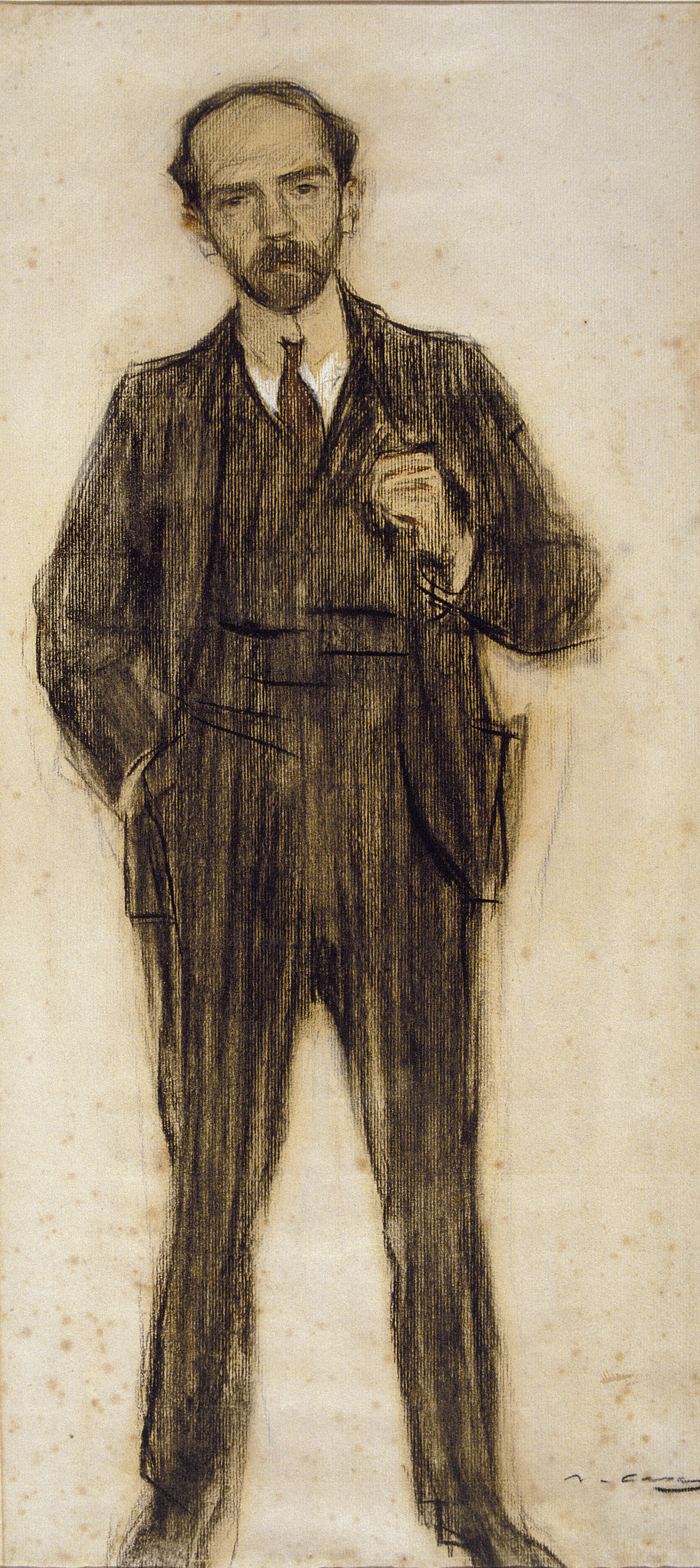 Portrait by Ramon Casas conserved at MNAC in Barcelona.